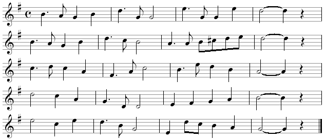 Notes of the anthem of Limburg. I created the picture myself today by using capella 2000 and release into the public domain: --Gardini 22:45, 11 June 2006 (UTC)